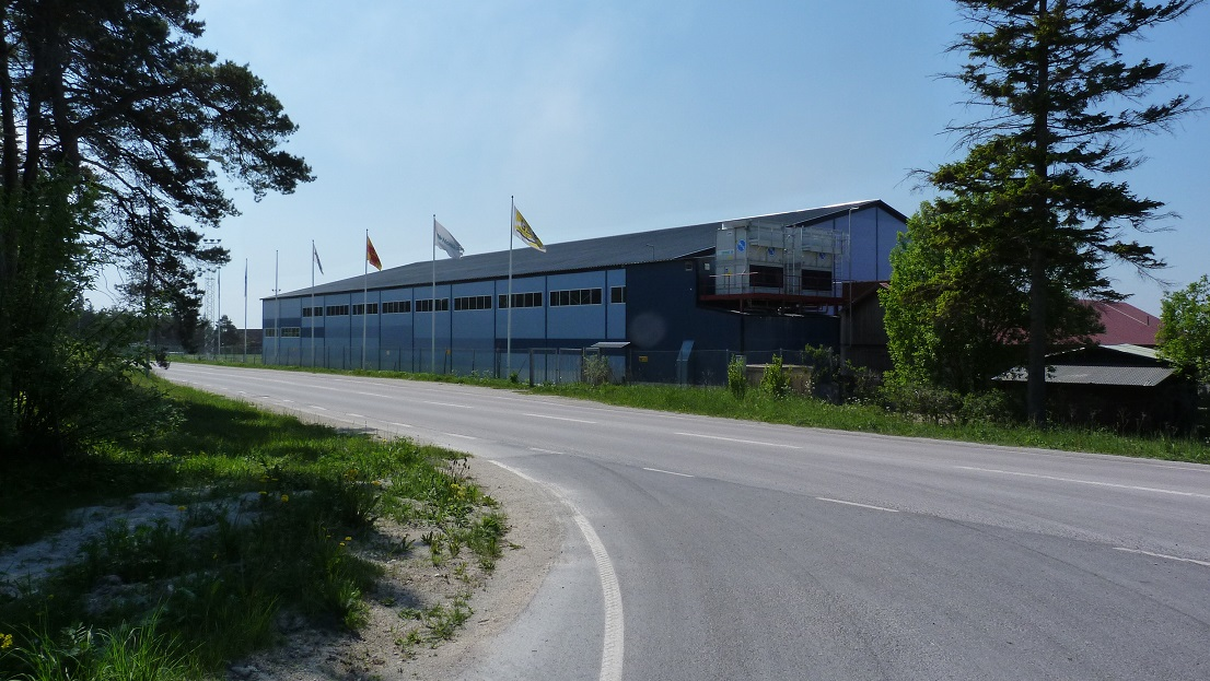 Ice hockey arena in Slite, Gotland